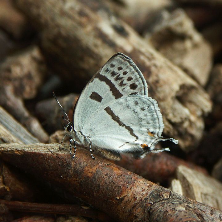 ssp. attilia